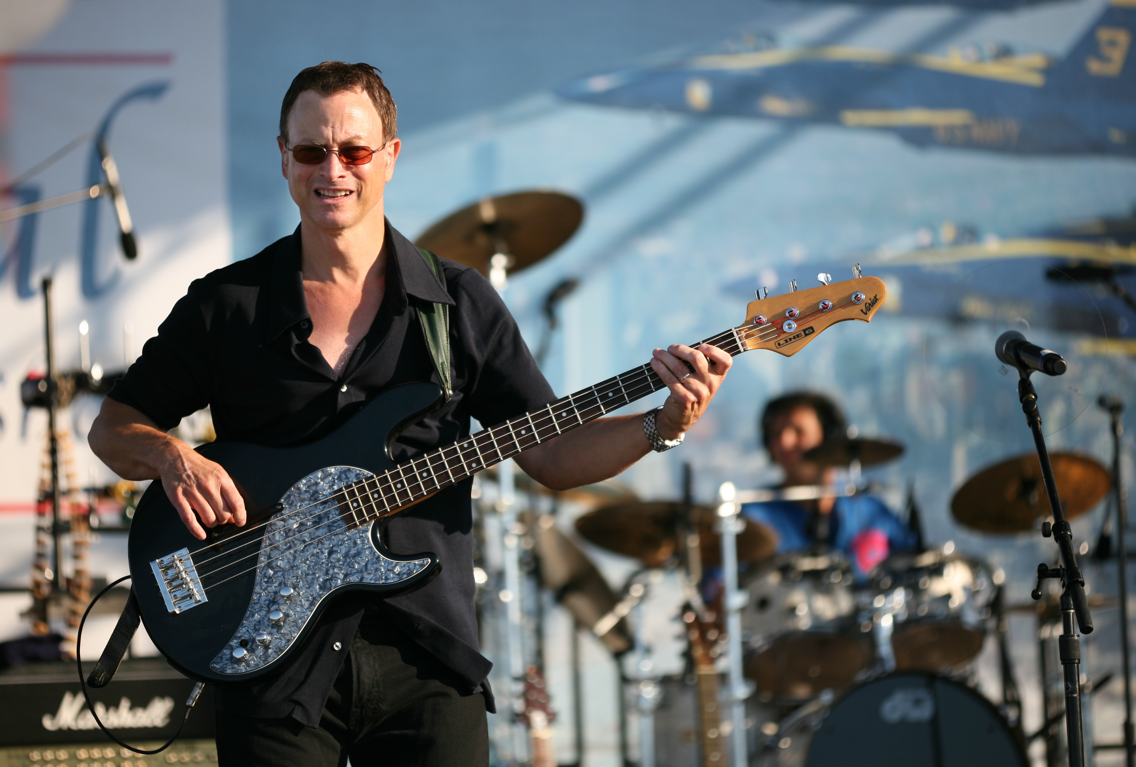 Gary Sinise on stage with the Lt. Dan Band at the Chicago Air and Water Festival 2008.